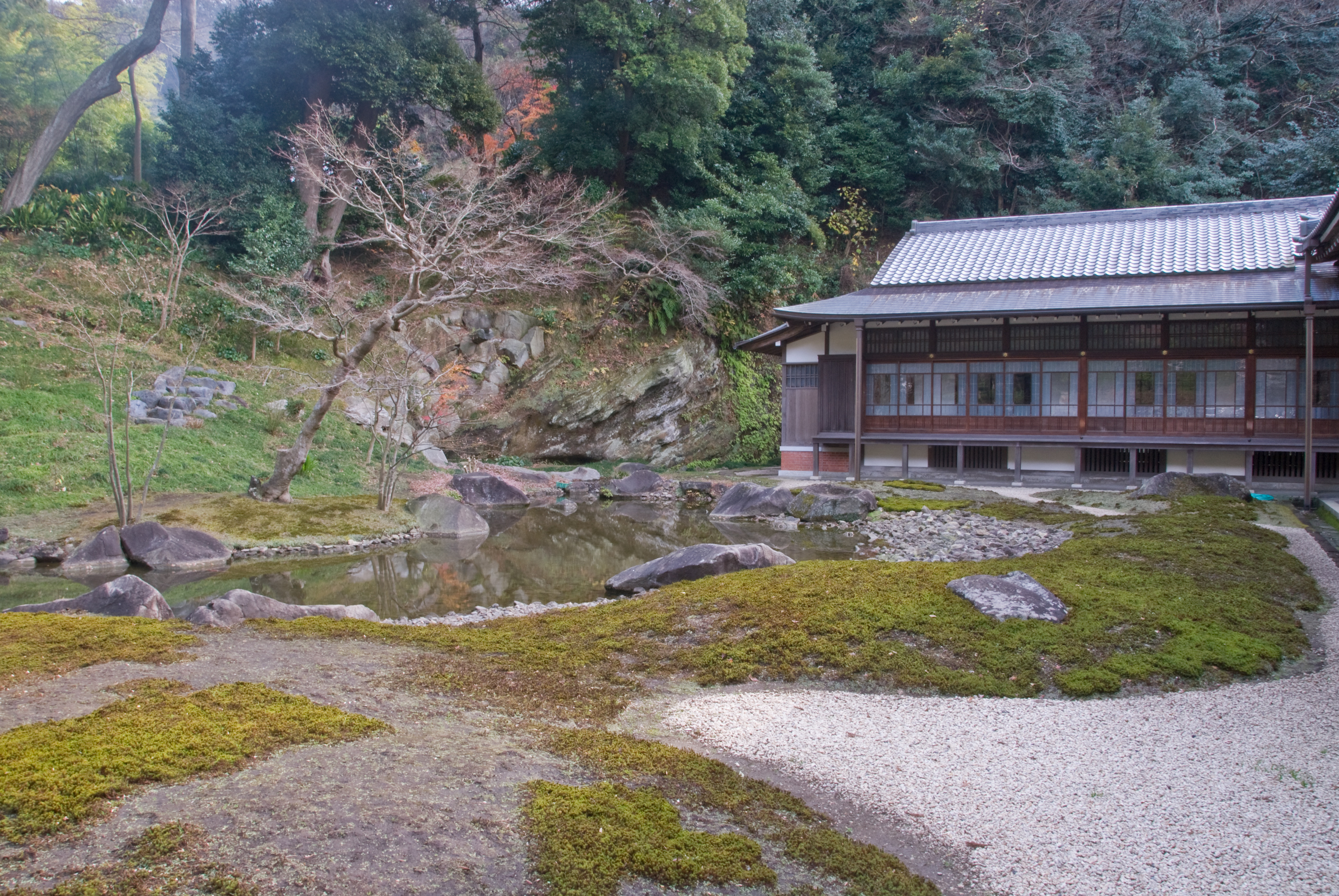 The Zen garden at Engaku-ji in Kamakura, designed by Musō Soseki